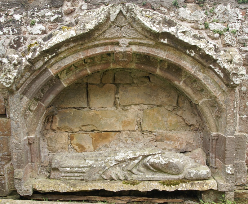 Fearn Abbey, Highland, Scotland - tomb of abbot Finlay McFaed